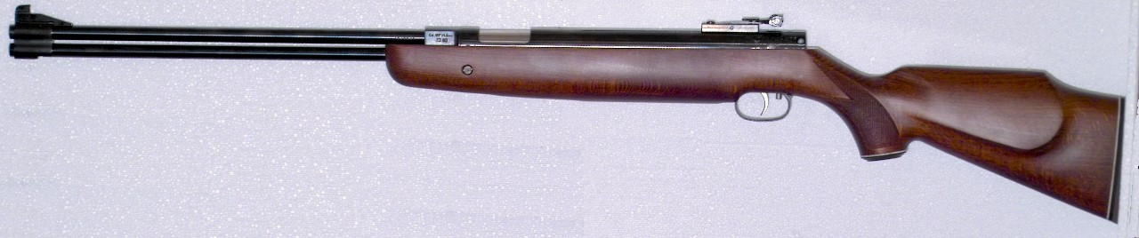 German Air gun